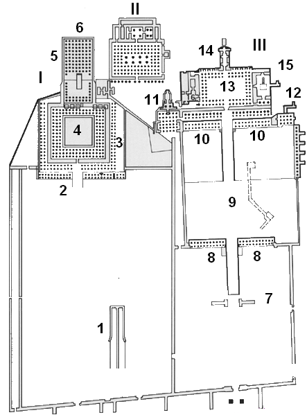 Map of temples in Deir el-Bahari.